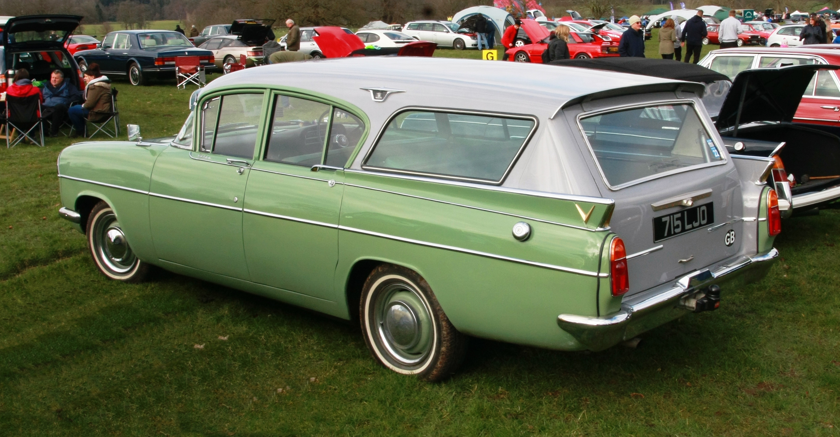 Vauxhall Velox PA SX estate (1961)